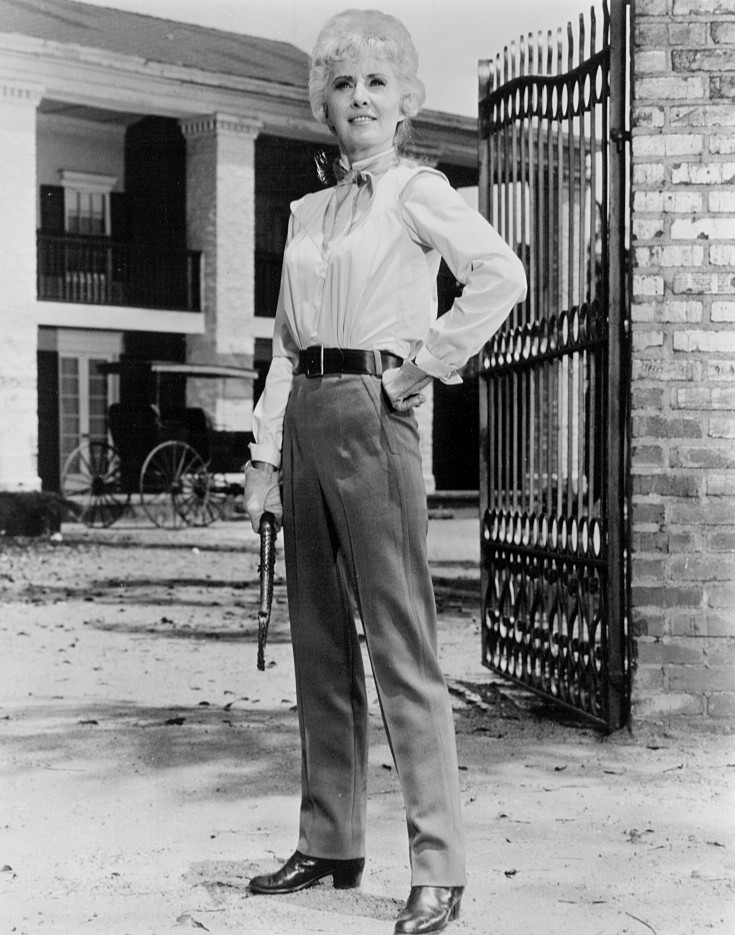 Photo of Barbara Stanwyck as Victoria Barkley from the premiere of the television Western The Big Valley.